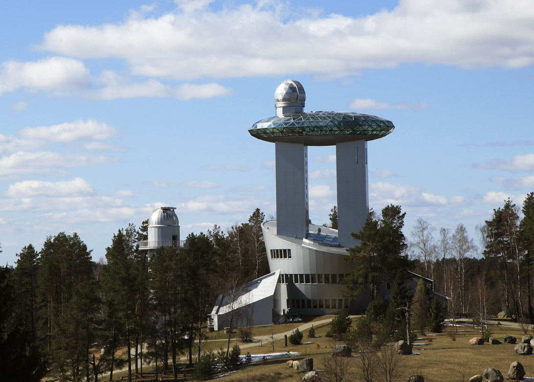 Lithuanian Museum of Ethnocosmology in Spring 2012Lietuvių: Lietuvos etnokosmologijos muziejus, 2012 m. Pavasarį